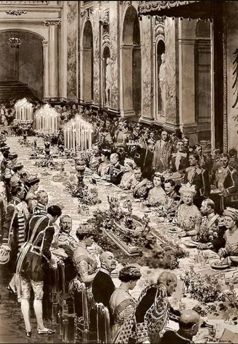 Royal Banquet of the Wedding of Princess Victoria Louise of Prussia and Ernst August, Duke of Brunswick in the Berlin City Palace